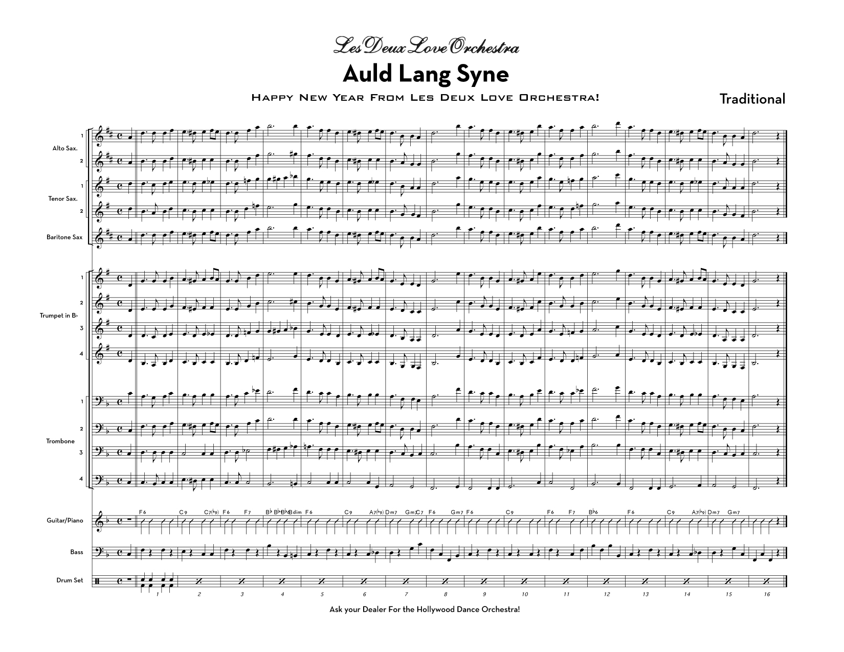 Les Deux Love Orchestra's classic big band score to "Auld Lang Syne." The arrangement features 5 saxes, 4 trumpets, 4 trombones and rhythm section.